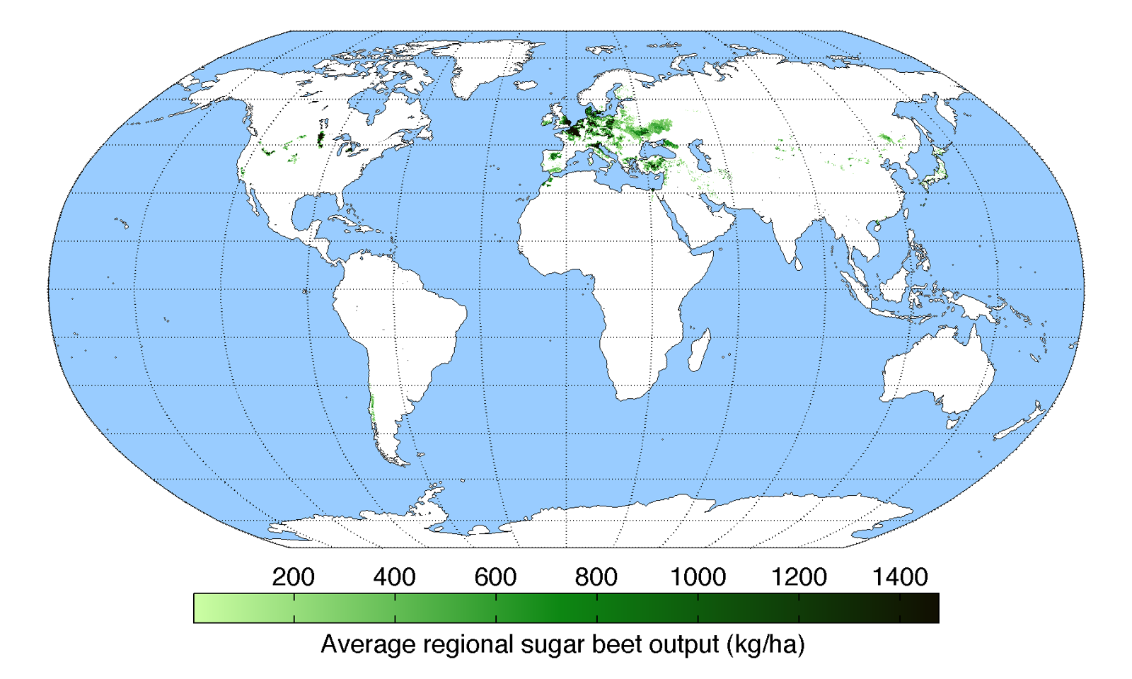 Map of sugar beet production (average percentage of land used for its production times average yield in each grid cell) across the world compiled by the University of Minnesota Institute on the Environment with data from: Monfreda, C., N. Ramankutty, and J.A. Foley. 2008. Farming the planet: 2. Geographic distribution of crop areas, yields, physiological types, and net primary production in the year 2000. Global Biogeochemical Cycles 22: GB1022